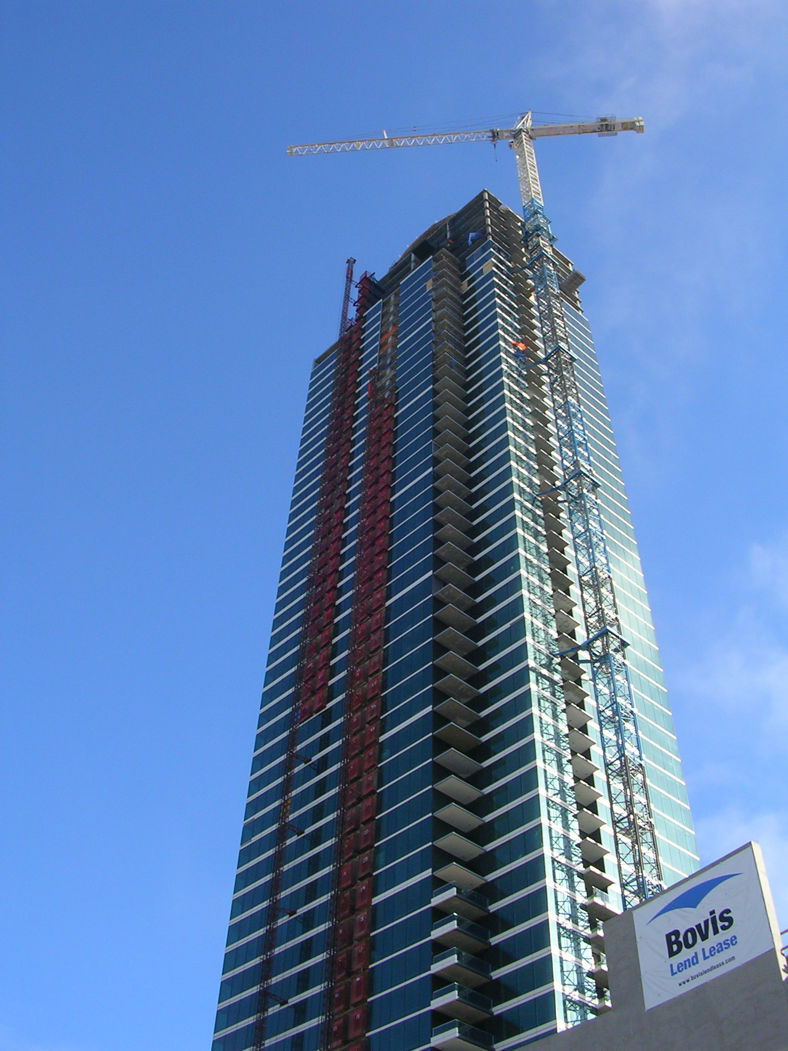 Taken by me in 2007.